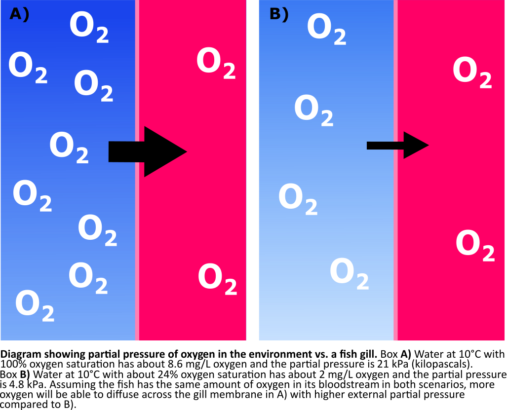 Diagram of oxygen partial pressure in the environment vs. the inside of a fish gill